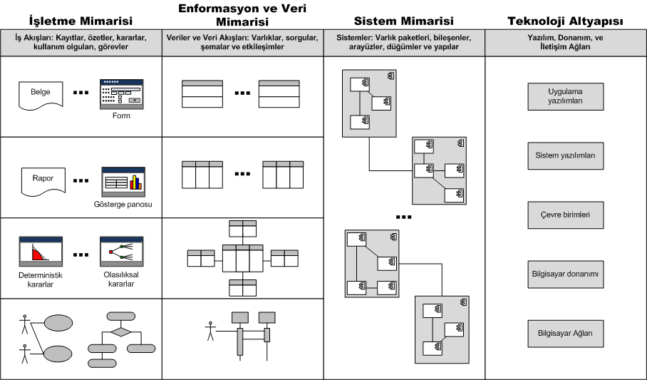 A UML-based model for enterprise architecture.